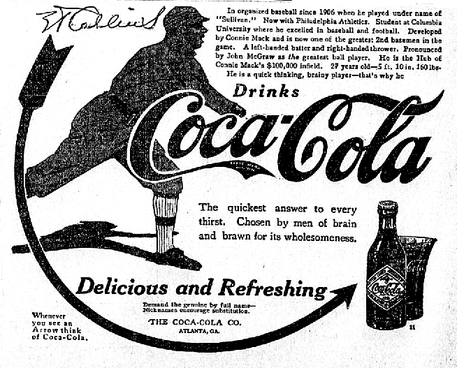 Newspaper ad for Coca-Cola from 1914, featuring Eddie Collins.